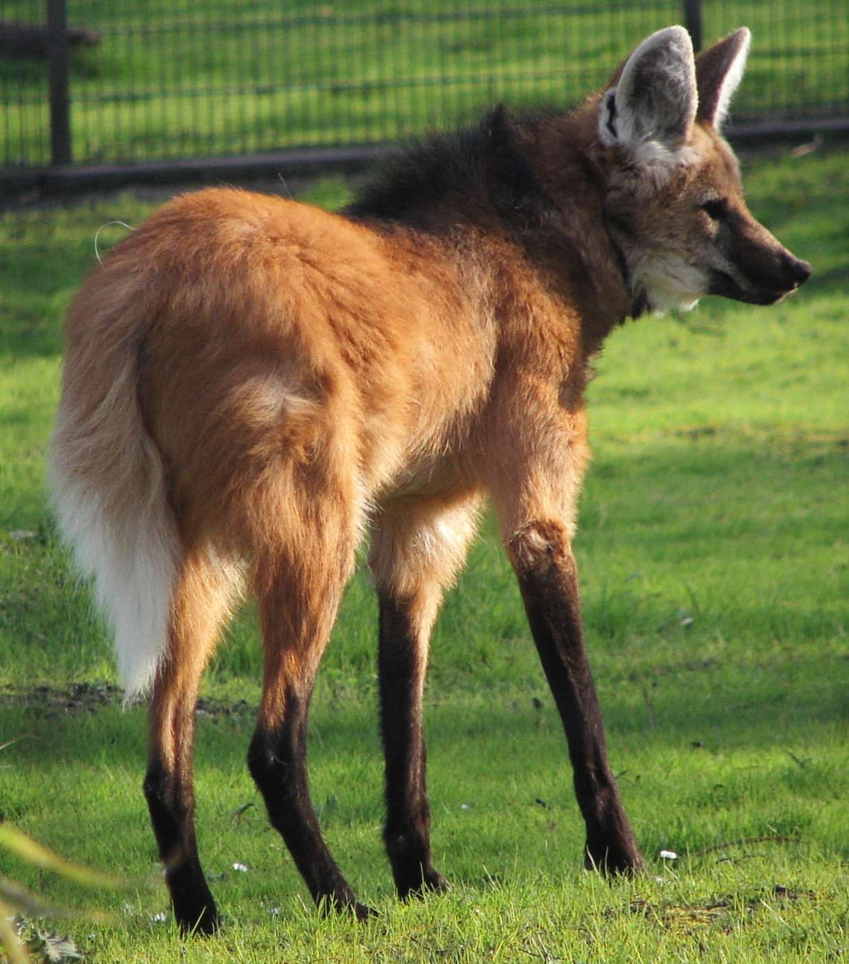 Chrysocyon brachyurus (Maned Wolf) in Cologne Zoo, Germany.